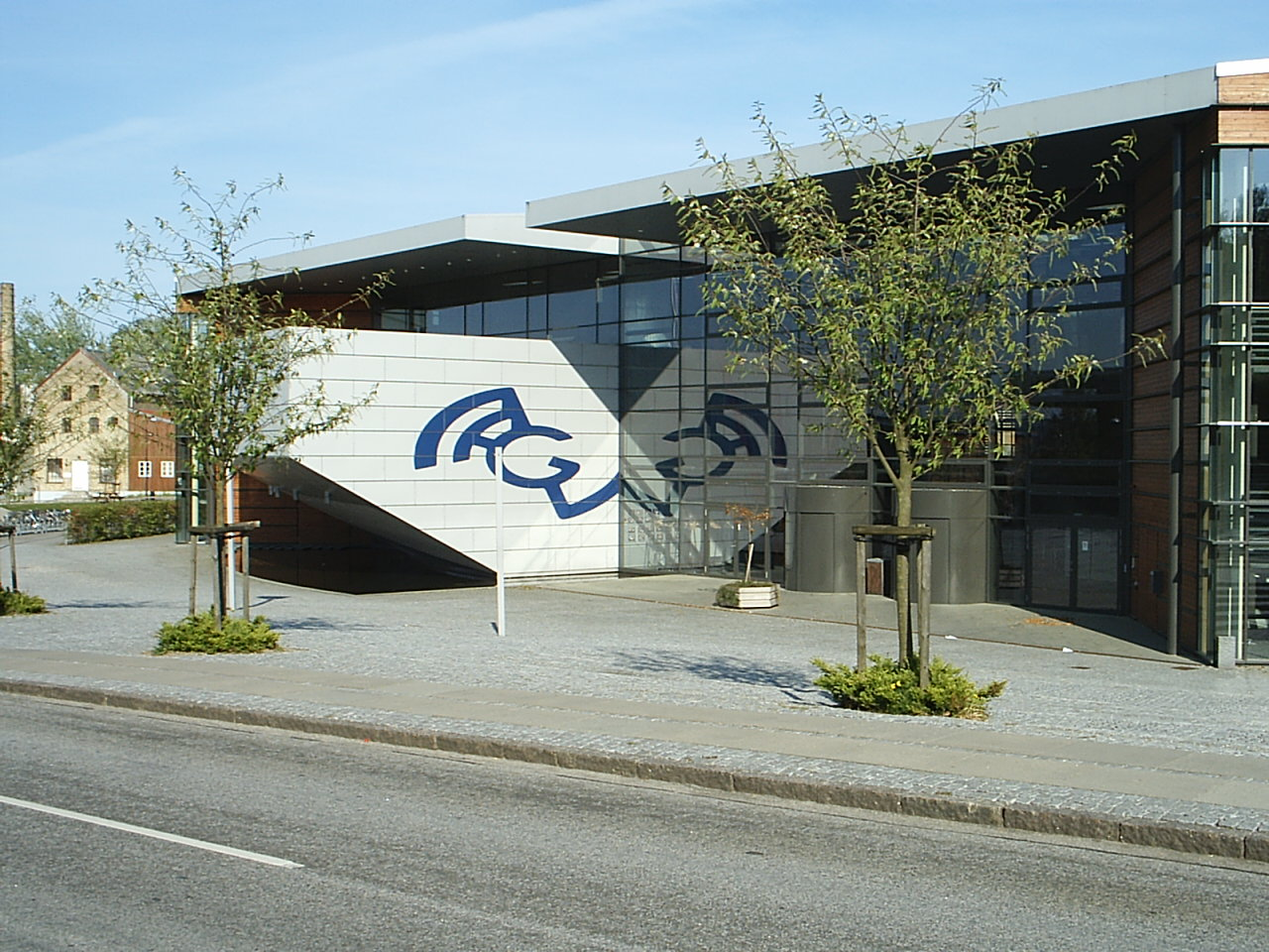 Nærum Gymnasium (high school in Nærum, north of Copenhagen)